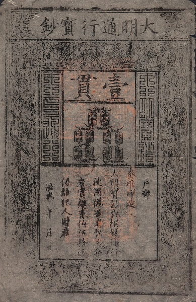 A banknote denominated in "a string of cash coins" (Guàn) from the Ming Dynasty.